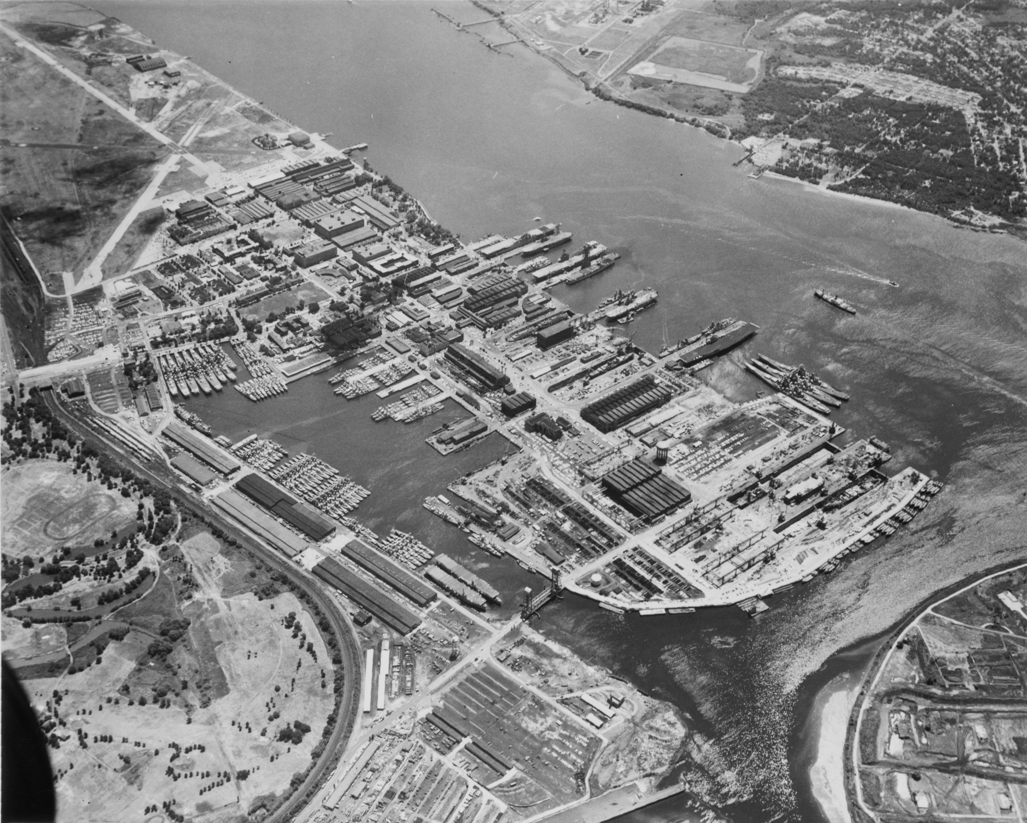 Aerial photograph of the Philadelphia Naval Shipyard, Philadelphia, Pennsylvania (USA), on 20 July 1966. Many mothballed ships are visible, among them three Essex-class aircraft carriers (USS Leyte (CVS-32) or USS Tarawa (CVS-40), top, USS Lake Champlain (CVS-39), and USS Antietam (CVT-36)), two Independence-class light carriers, a Commencement Bay-class escort carrier, two (active) Iwo Jima-class helicopter carriers and three Iowa-class battleships.